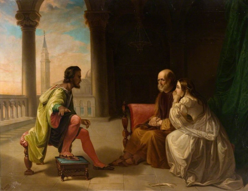 Othello Relating His Adventures (copy after Douglas Cowper), 1879, oil on canvas by John Emery (1802–1893)